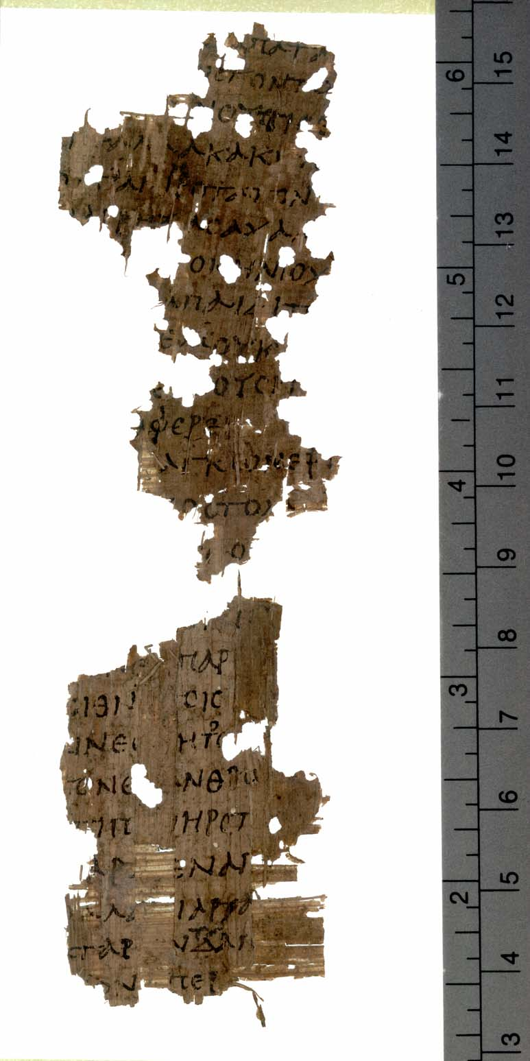 This is the one of the only two papyrus fragments of Theognis. Located in the Papyrology Rooms of the Sackler Library in Oxford it contains the verses 254-278 (Bekker's).